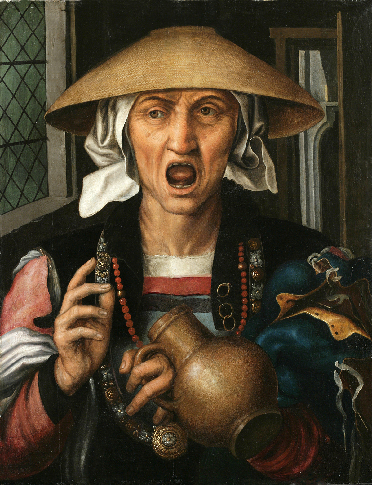 In Woman enraged we are confronted by a bizarrely attired, screaming female. Although clearly an unusual character, the woman cannot be identified with any known literary or historical figure. The painting appears to be an allegory with moralistic overtones related to two of the deadly sins. Although it bears no inscription, Woman enraged also conveys a message through the use of symbols. The woman’s expression clearly indicates anger. Through the door behind her, we catch a glimpse of a fireplace, which may well be an allusion to anger, for fire is the element traditionally associated with the choleric temperament. In addition to Anger, the figure personifies Avarice, as seen from her eclectic attire and possessions.